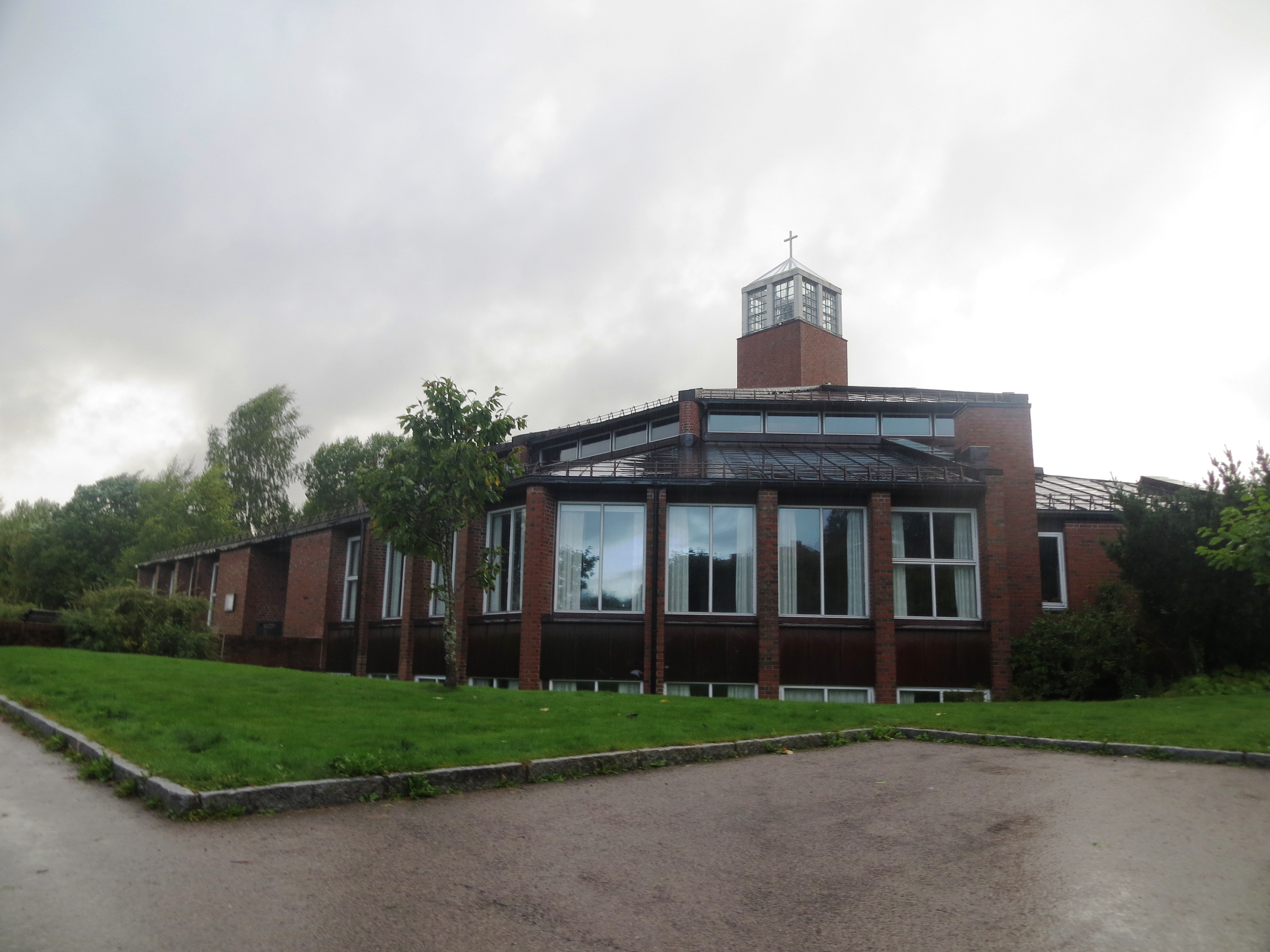 Voksen chapel, at Røa/Voksen, Vestre Aker District of Oslo, Norway